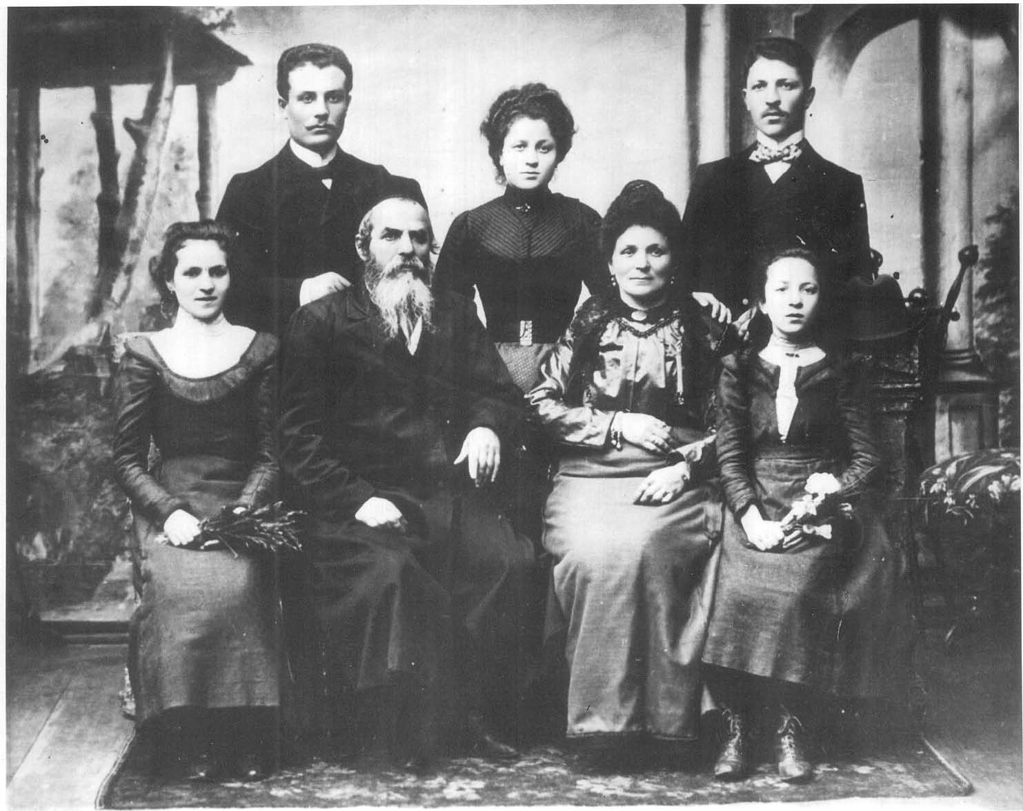 Family photo, taken in Russia. Most likely taken in 1800s, judging from photo, but definitely prior to 1912, which is the recorded date of Zvi Yosef Resnick's death.